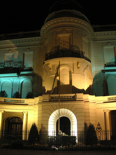 Vatican Embassy in Buenos Aires